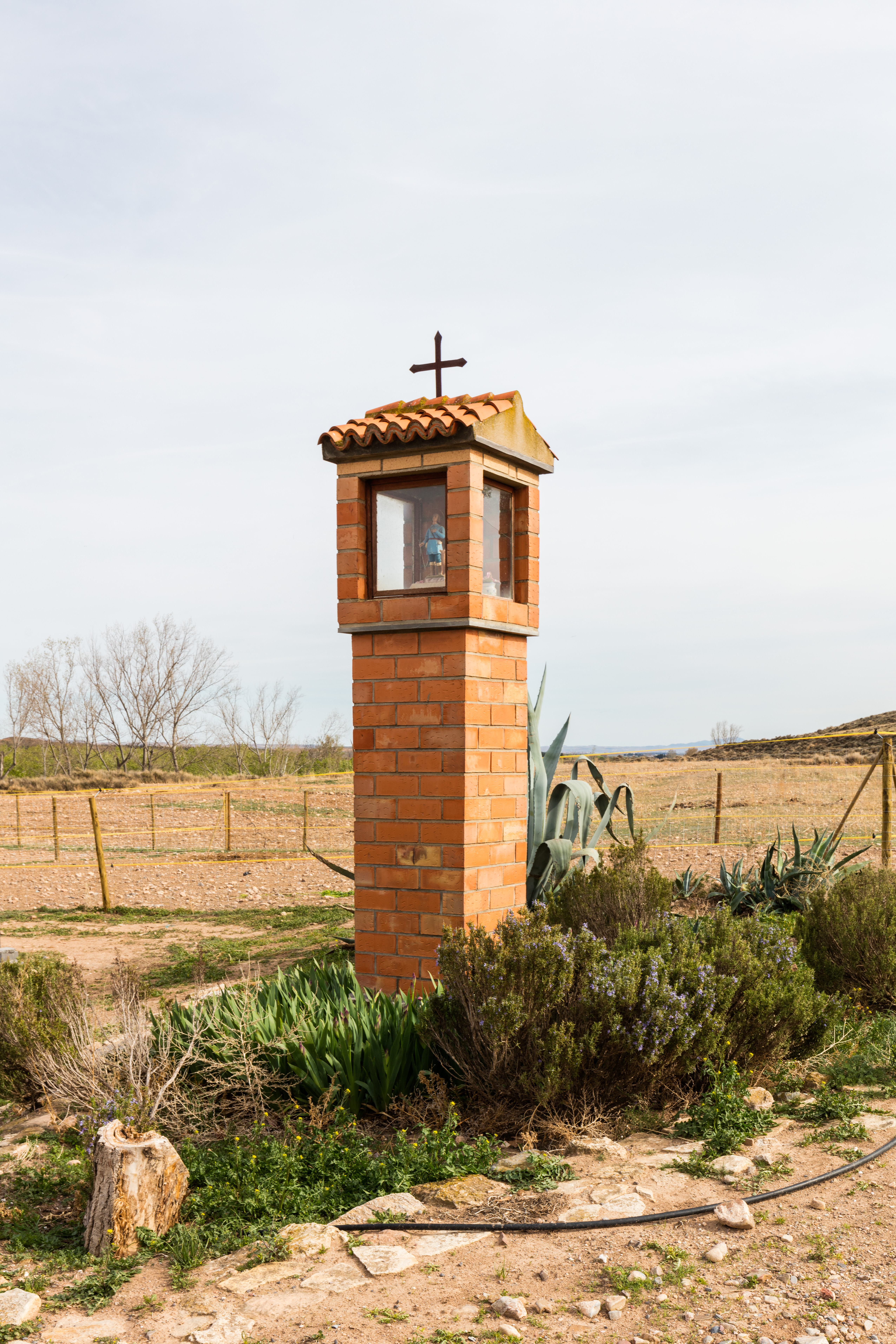 Wayside cross of St Huberto, Calatorao, Zaragoza, Spain